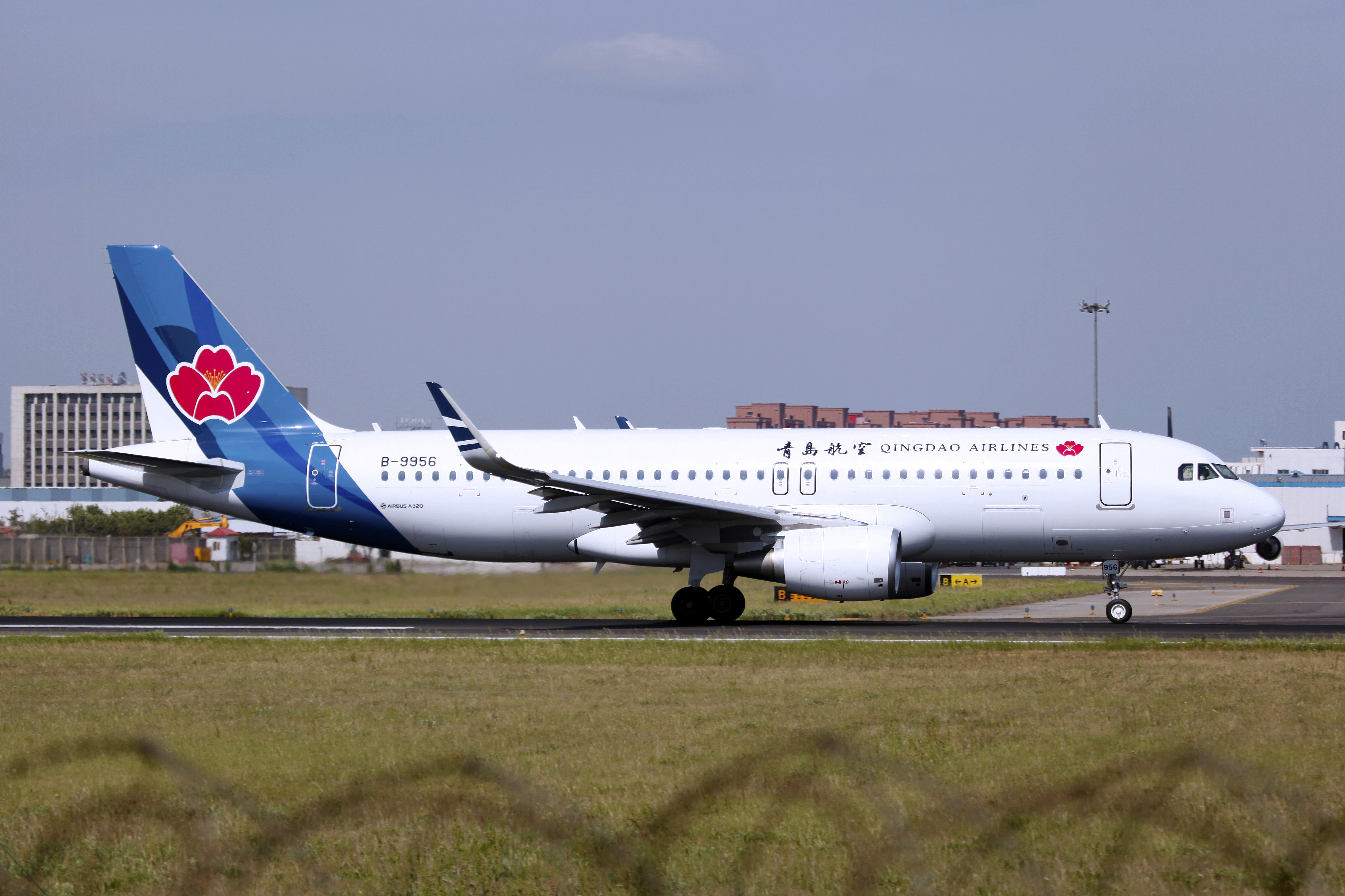 B-9956 | Qingdao Airlines | Airbus A320-214(WL) | Qingdao Liuting International Airport [TAO]